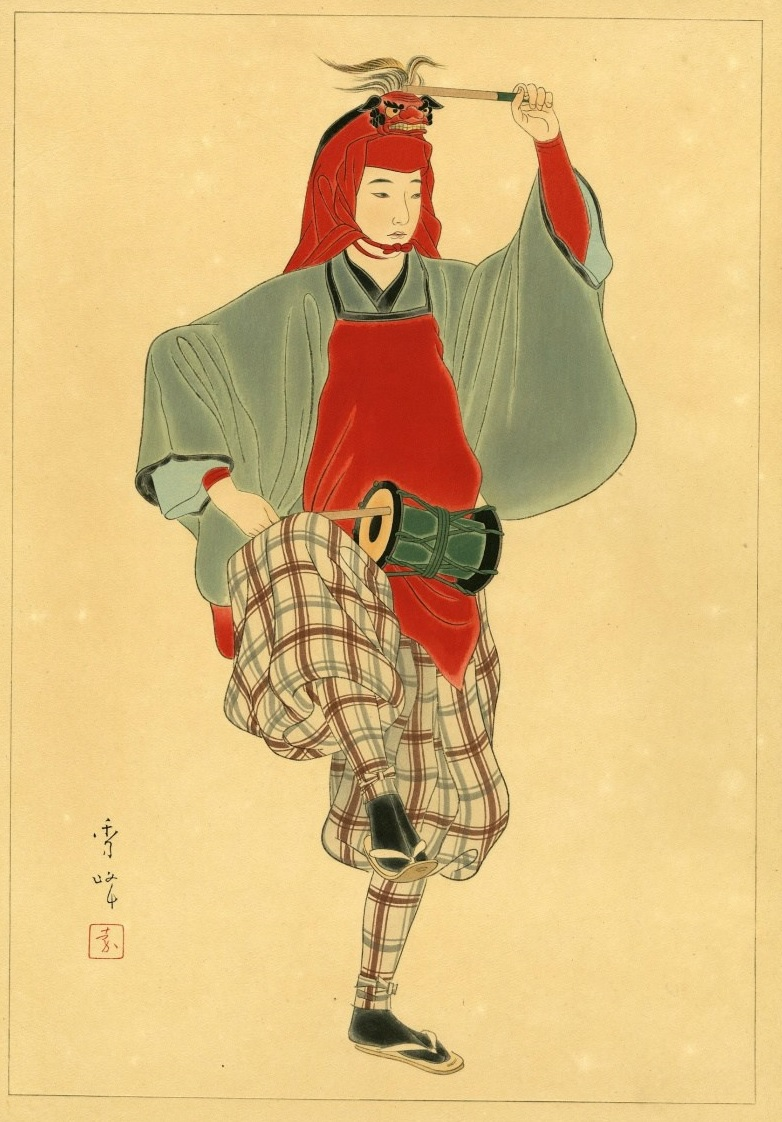 Red Lion Dancer, wood-cut